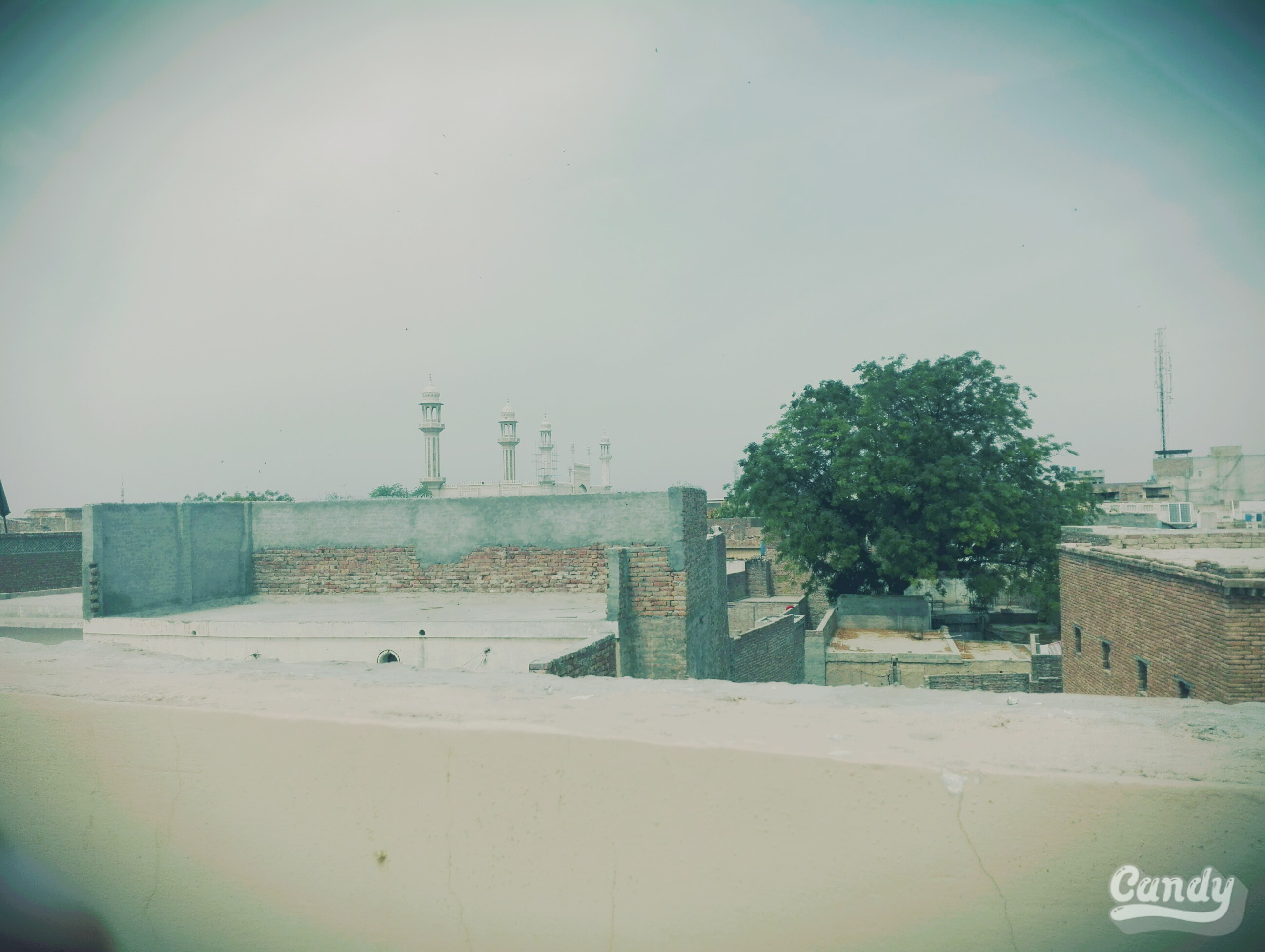 Bahawalpur